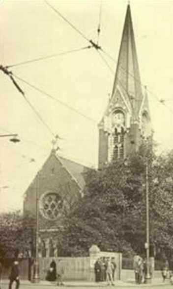 From